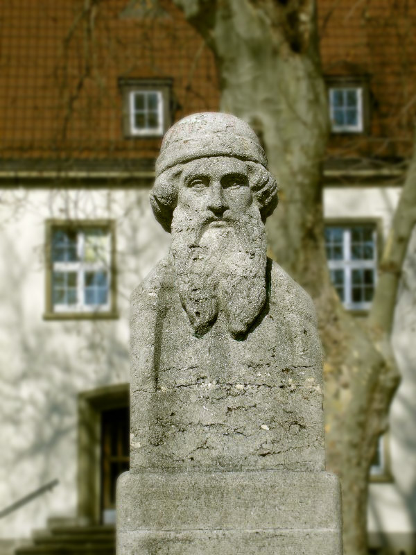 Statue of Johann Gutenberg on the Campus of the Johannes Gutenberg-University in Mainz, Germany